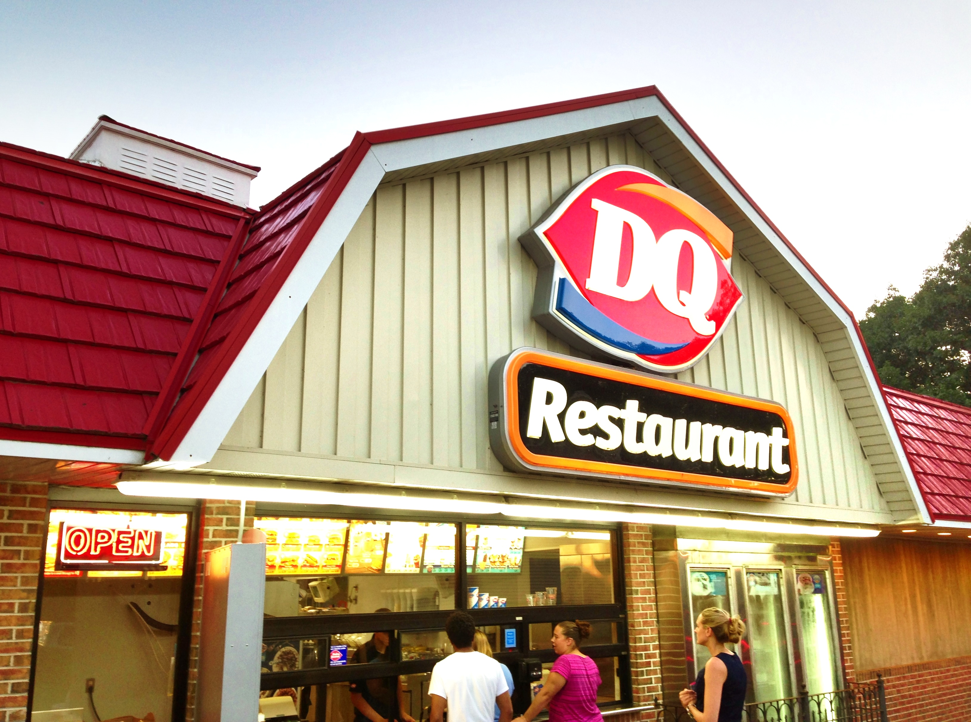 Dairy Queen Restaurant CT USA July 2013